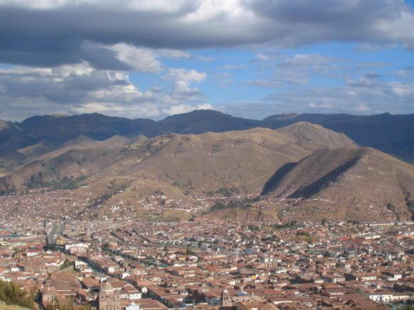 The original description of this picture was: "Mountains of Borama" (Borama being a city in Somaliland). However, it is Cuzco/Cusco, Peru.